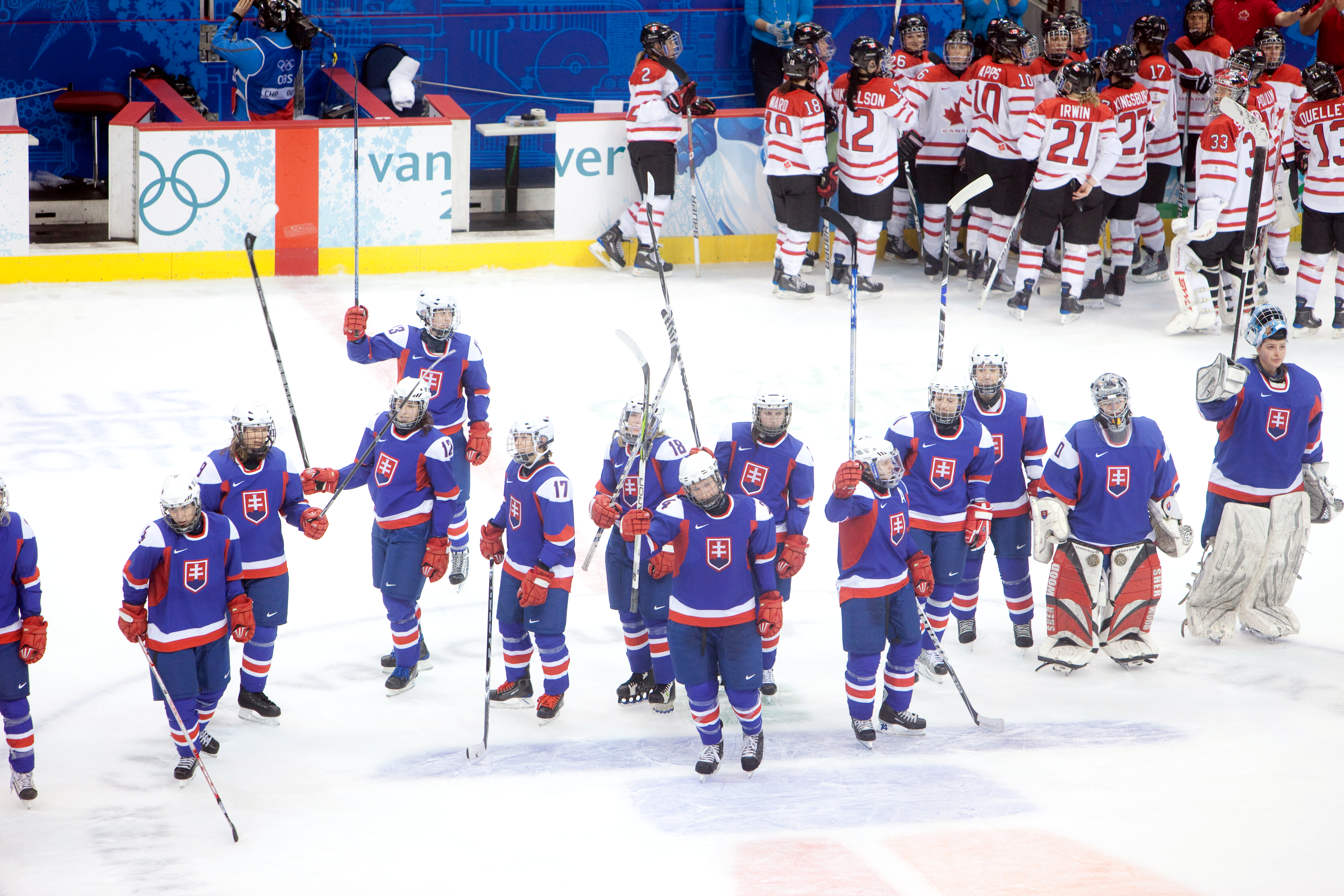 Slovakia women's national ice hockey team, Winter Olympics 2010